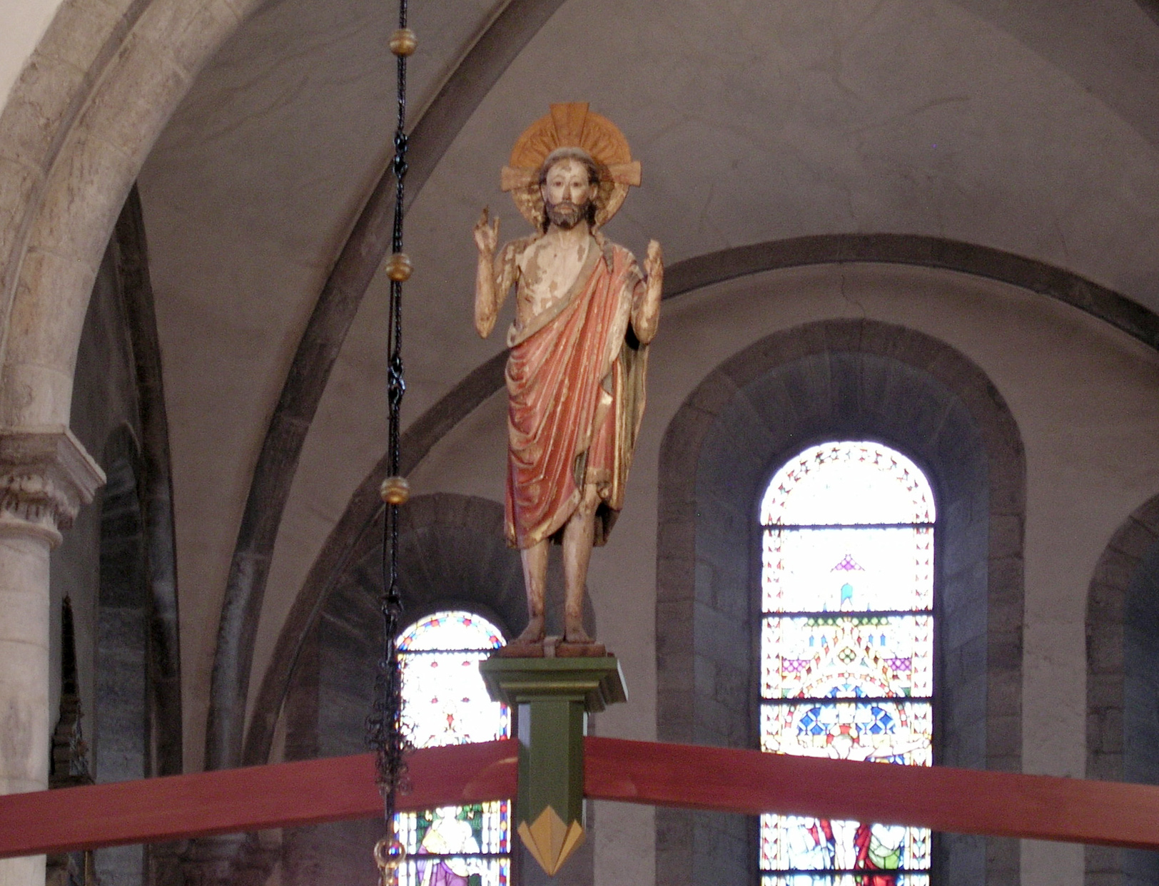 Cathedral Visby Sankta Maria. Triumph icon.